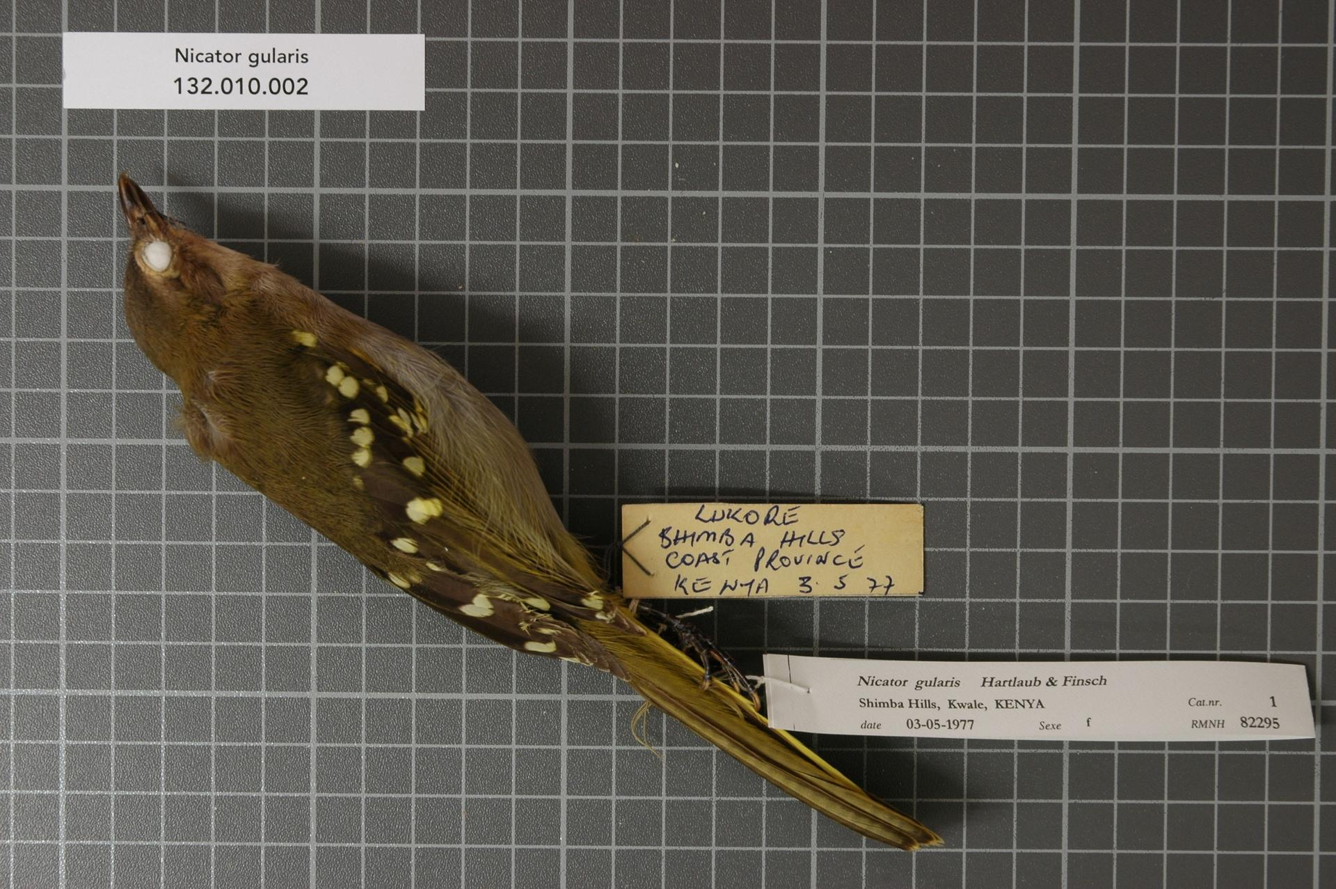 Nicator gularis Hartlaub and Finsch, 1870